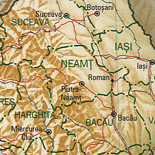 Map of Neamț County, Romania.